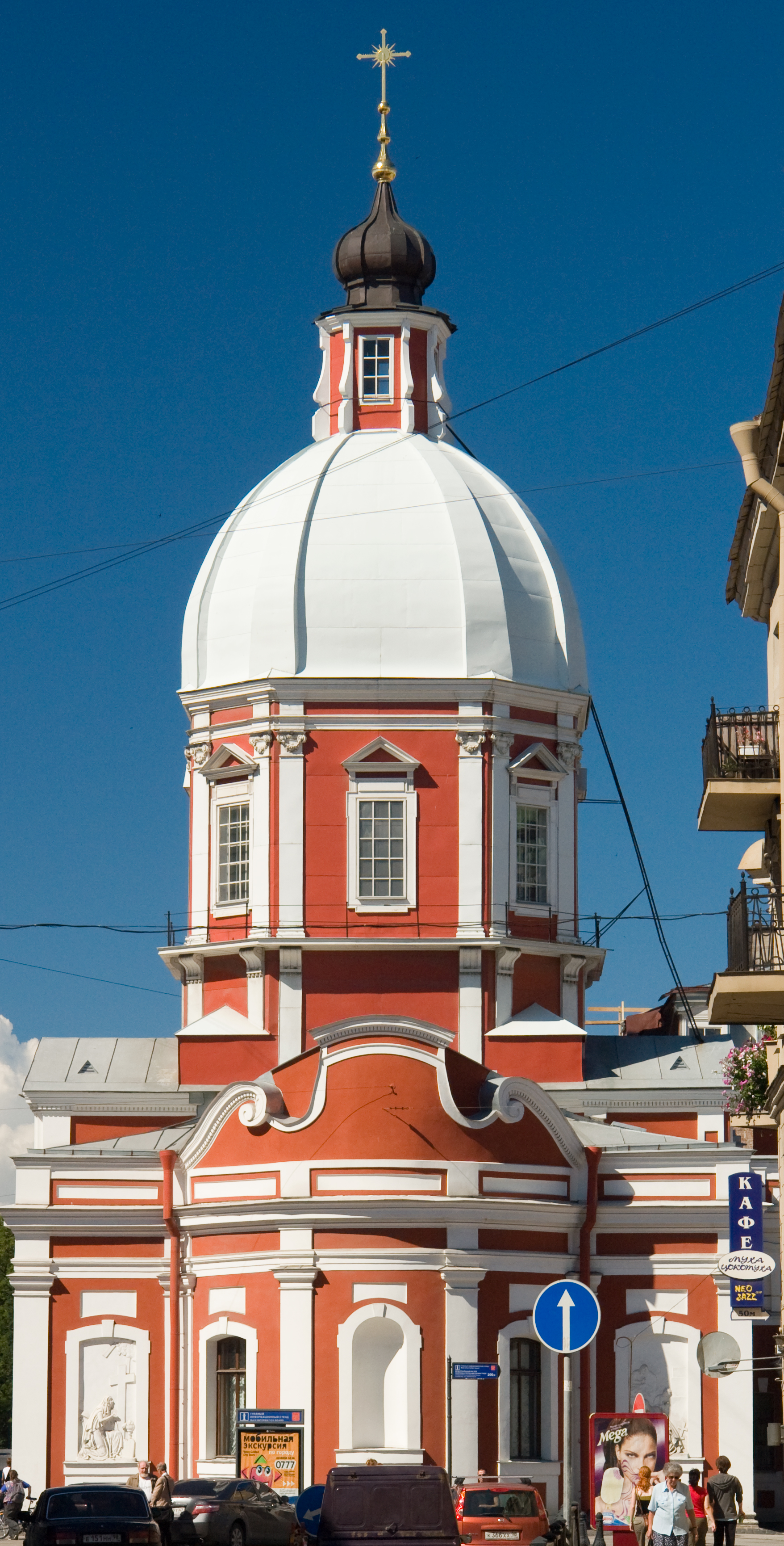 Saint Pantaleon's Church in St. Petersburg, Russia